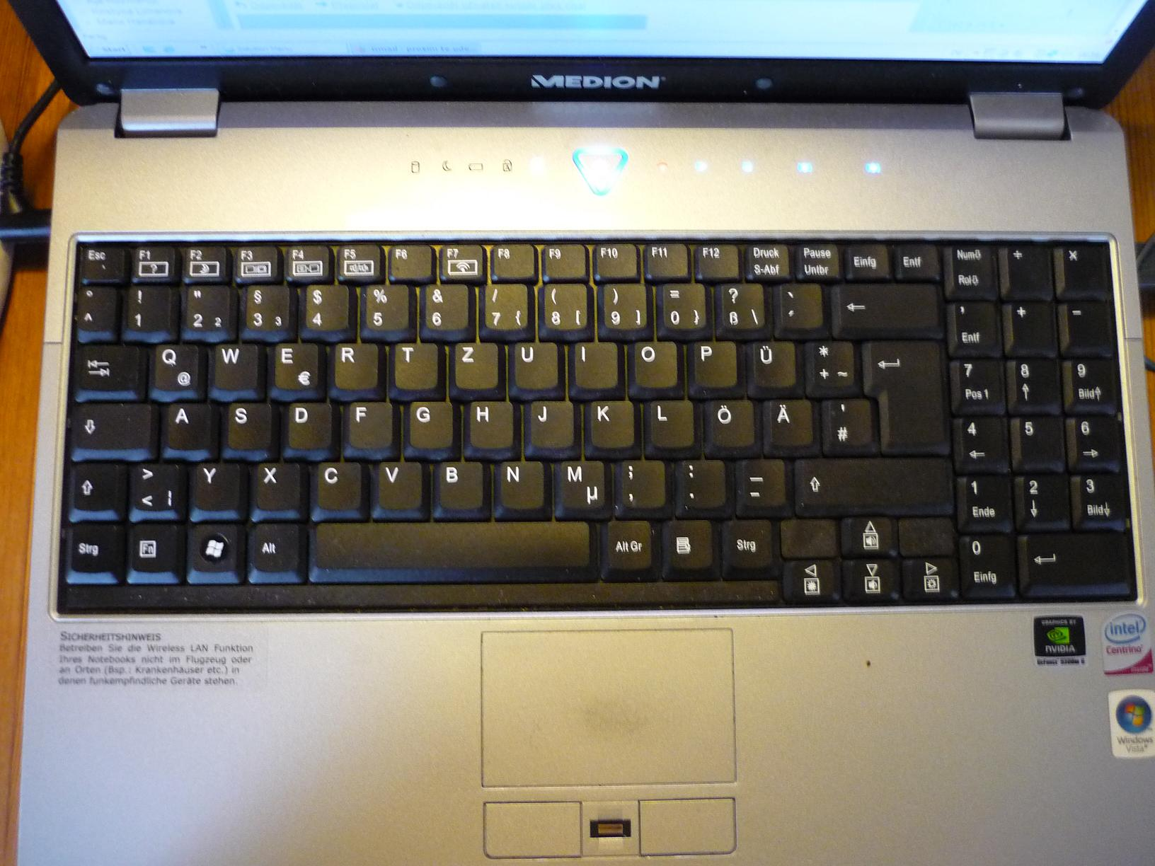 key board Medion